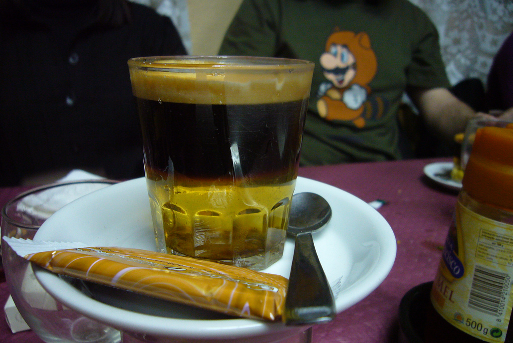 Carajillo